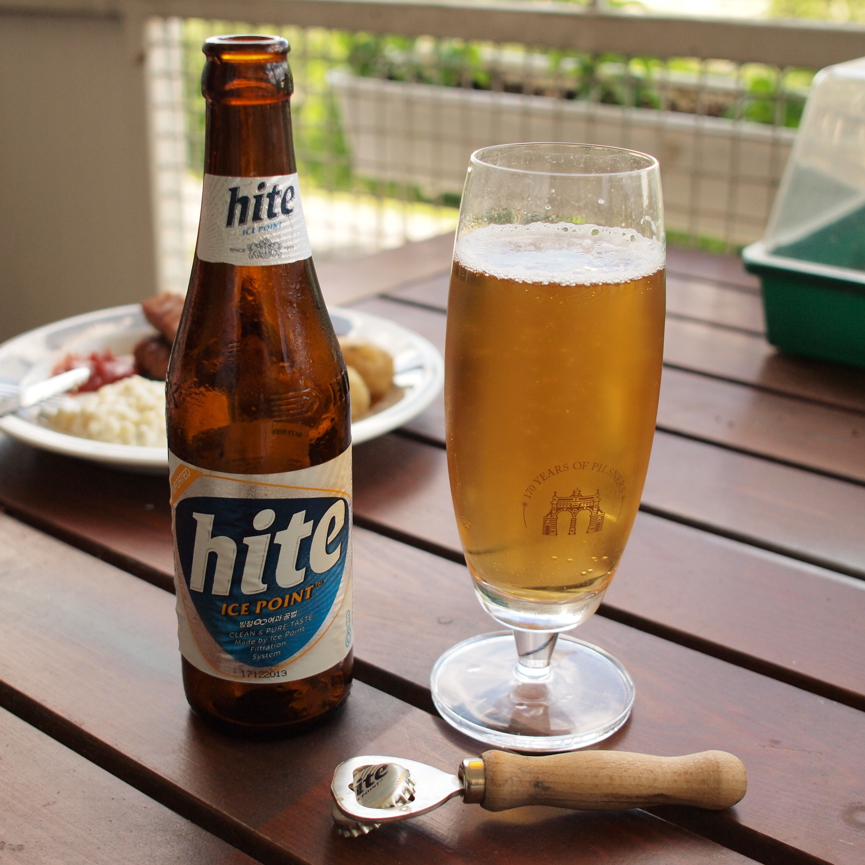 Bottle of Hite poured into a (Pilsner Urquell) glass